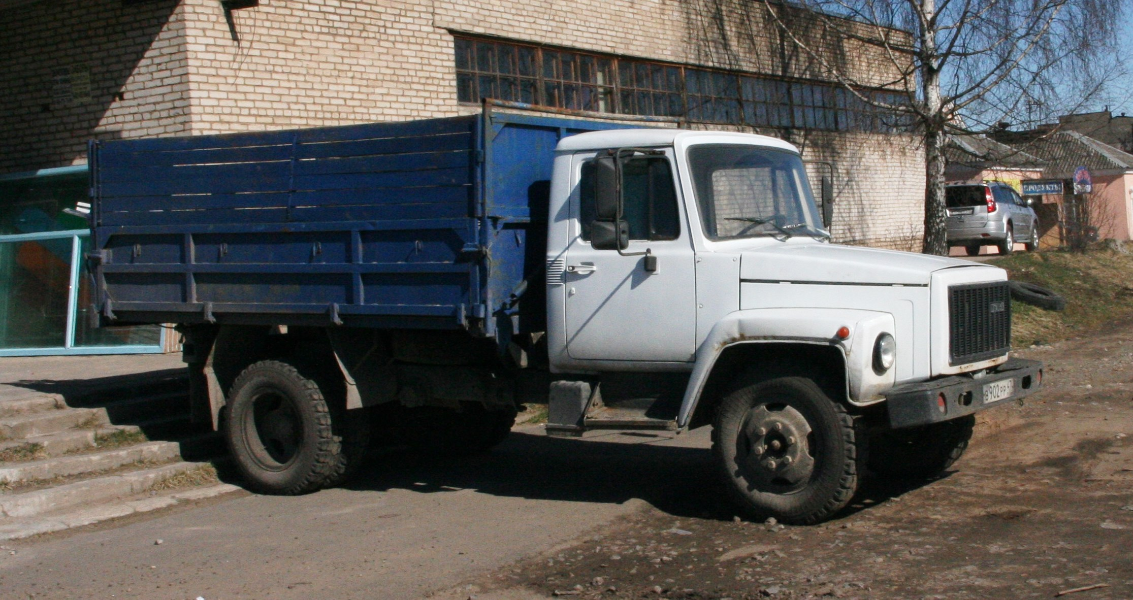 A GAZ-3307 at a stop next to A114-road to Tichwin, 130 km northeast of St. Petersburg